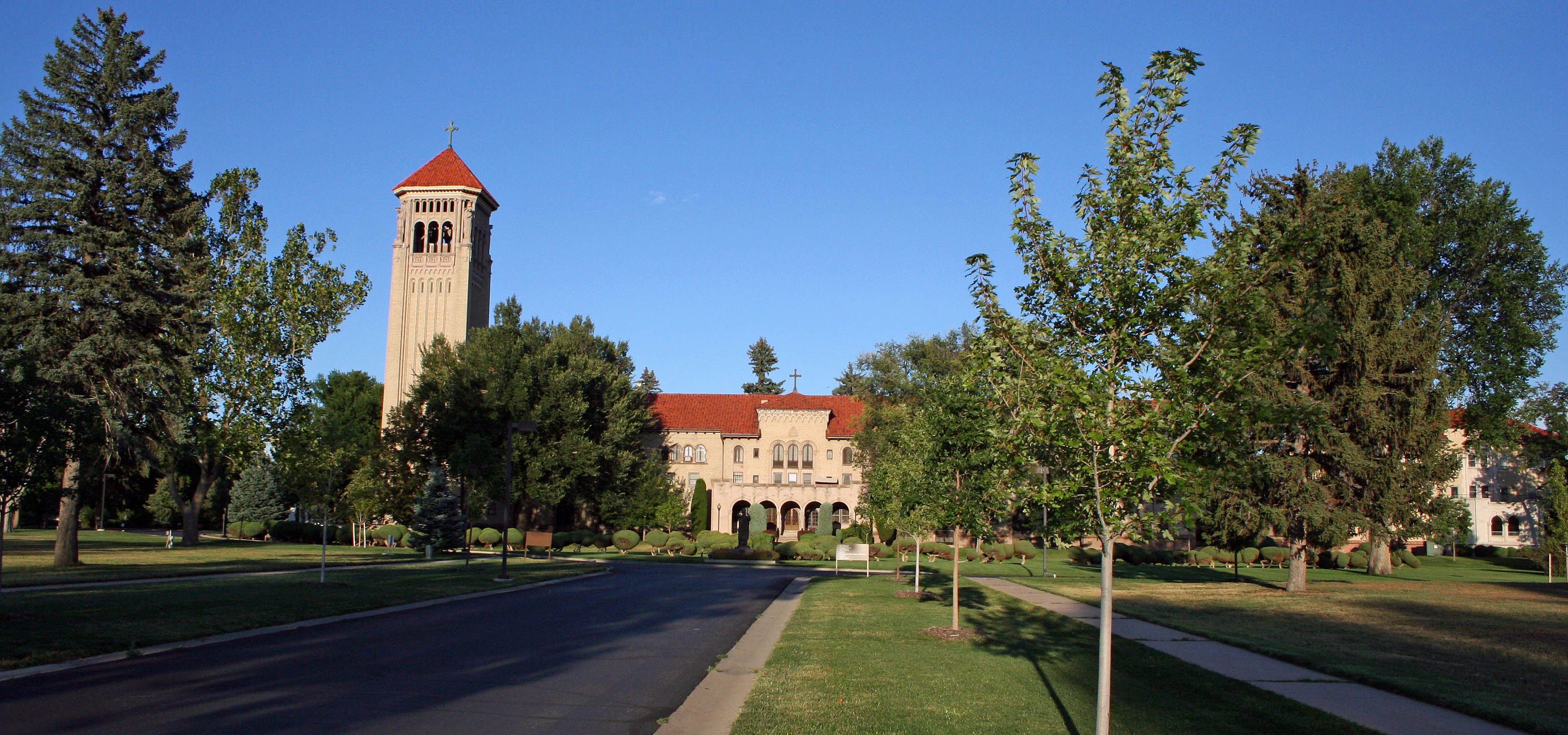 The Saint Thomas Theological Seminary, located at 1300 South Steele Street in Denver, Colorado.